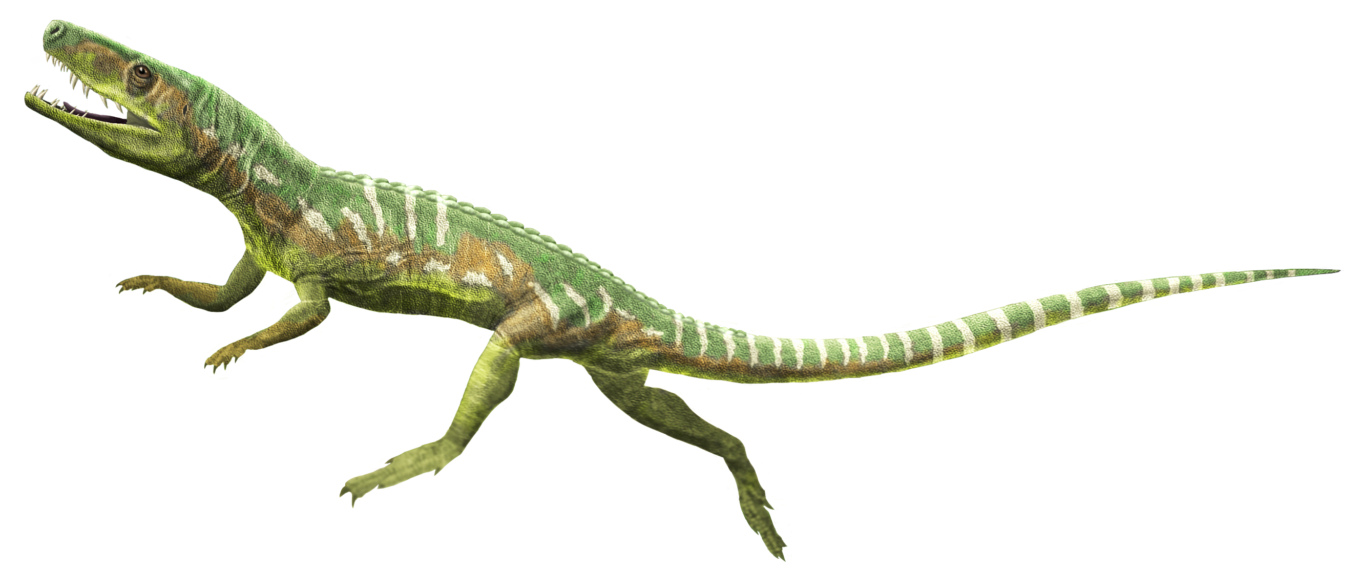 A version of Taenadoman's Euparkeria illustration with the background edited out